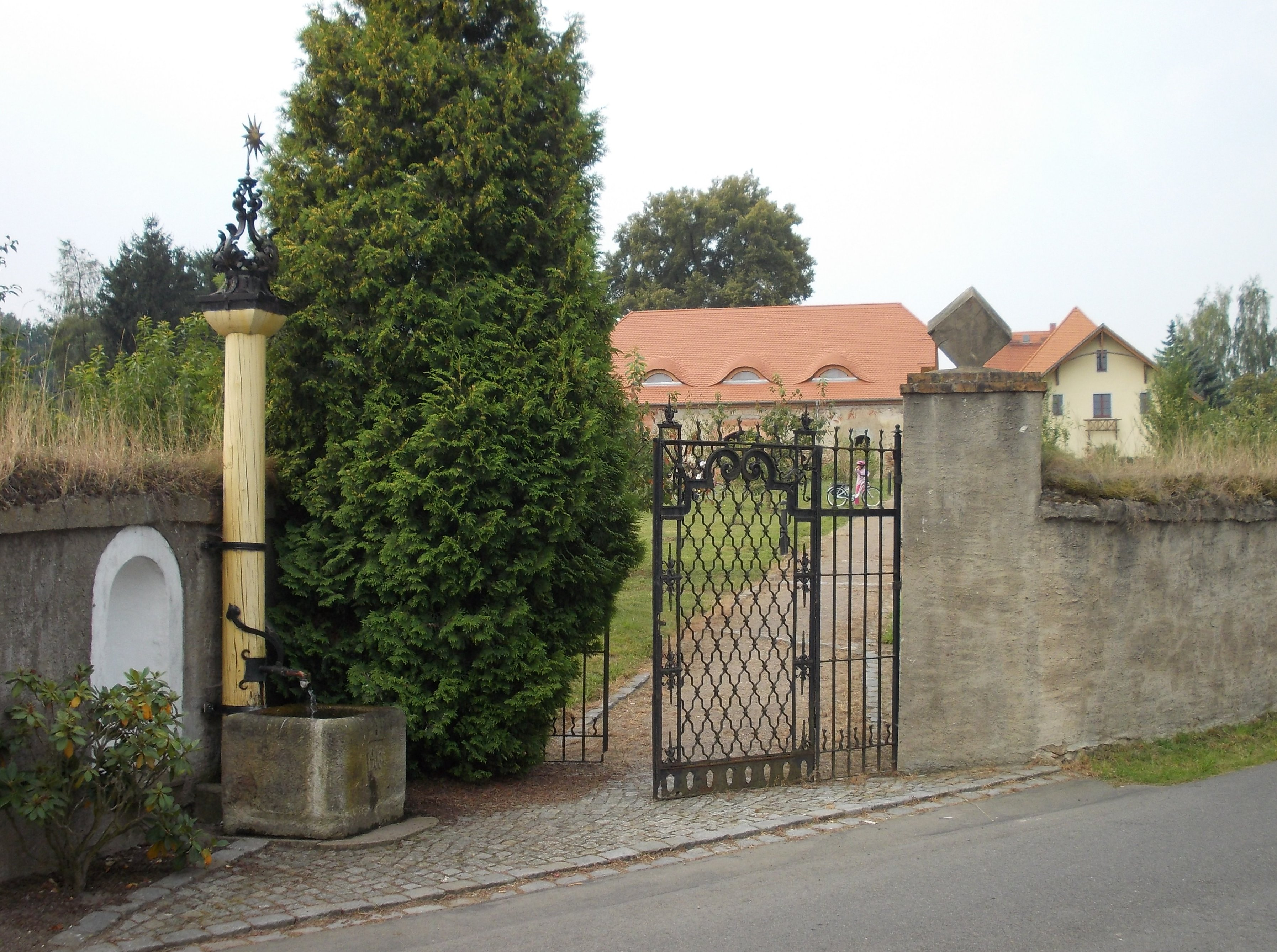 The former Cistercian nunnery of Marienthal in Sornzig (Mügeln, Nordsachsen district, Saxony)